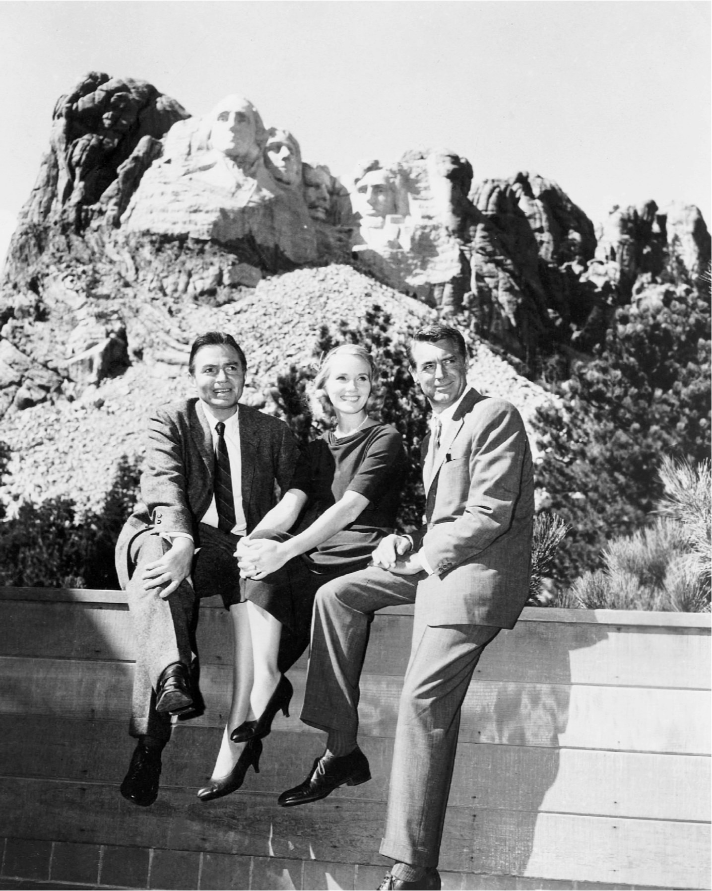 Photo of James Mason, Eva Marie Saint and Cary Grant, stars of the film North by Northwest posing at Mount Rushmore. From the trade magazine Motion Picture Daily. Note that the uploaded photo is larger and of better quality than the magazine photo. A renewal search was done at for the title "Motion Picture Daily". There were no listings for the title. There's no evidence of continuing copyright for the magazine.